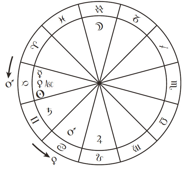 Astrological transit of Mars and Venus on natal chart